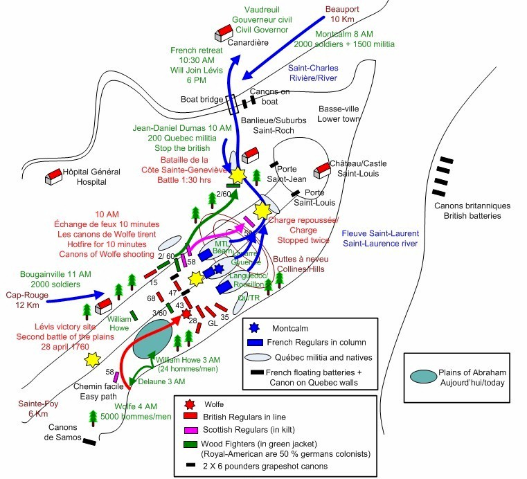 Battle of the plains of Abrahams september 13, 1759